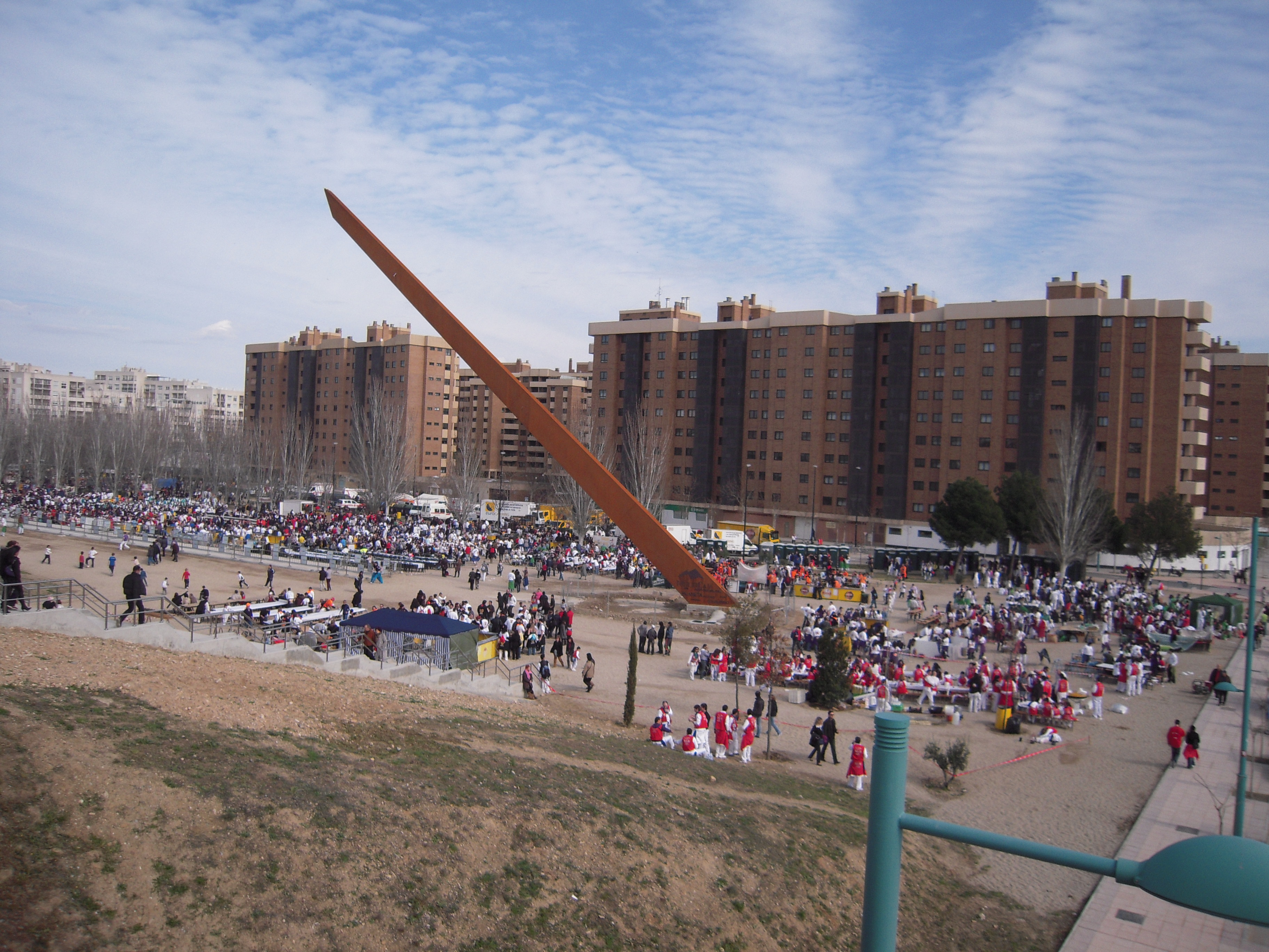 Image during the celebration of the feast of March 5 in Zaragoza.